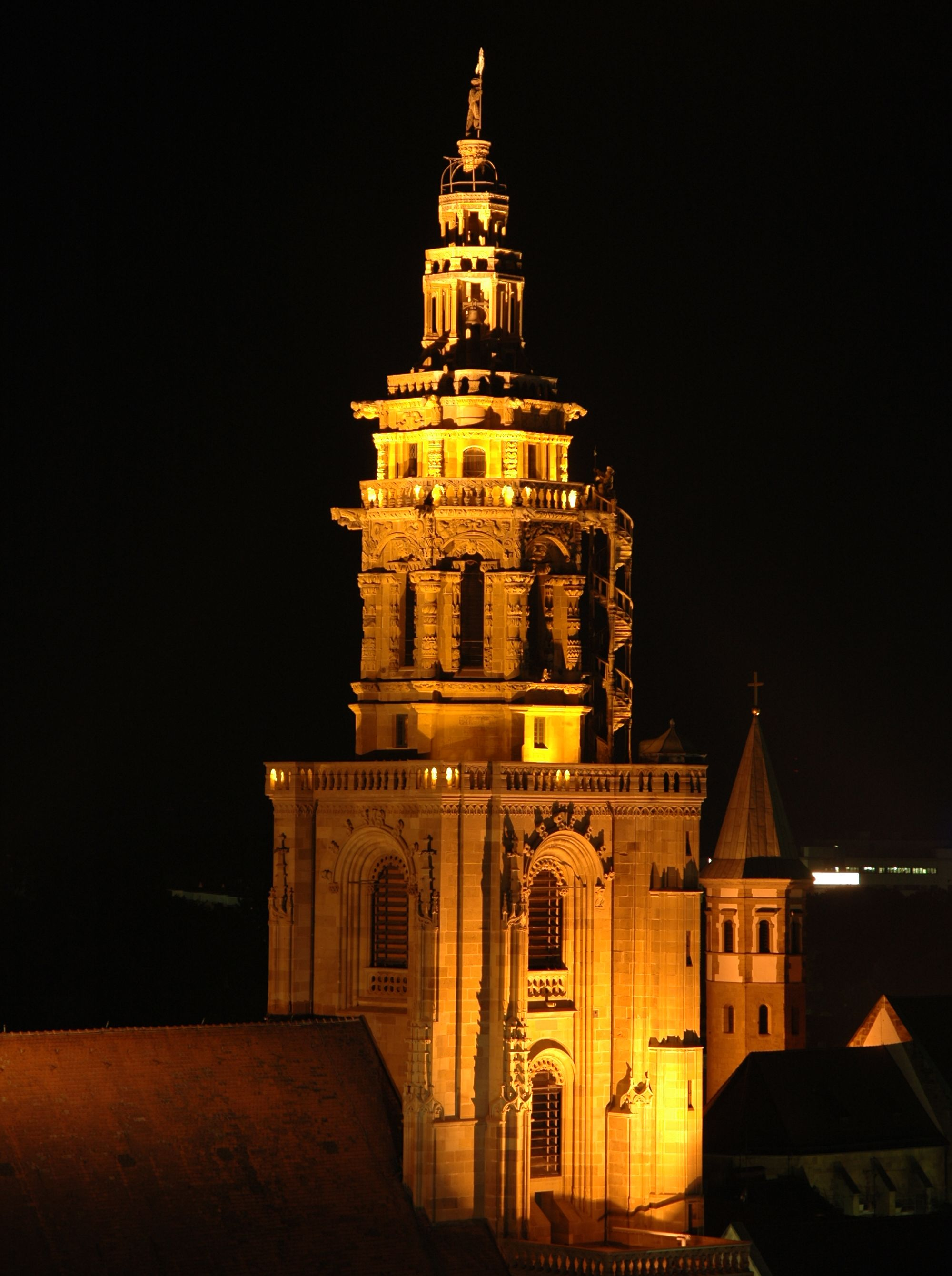 tower of church of St. Kilian in Heilbronn as seen from the Hafenmarktturm.